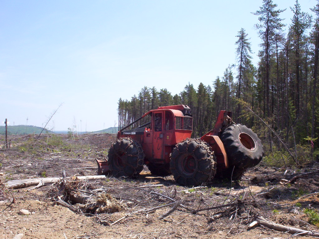 Timberjack 240 skidder (somewhere in Quebec, Canada, presumably)